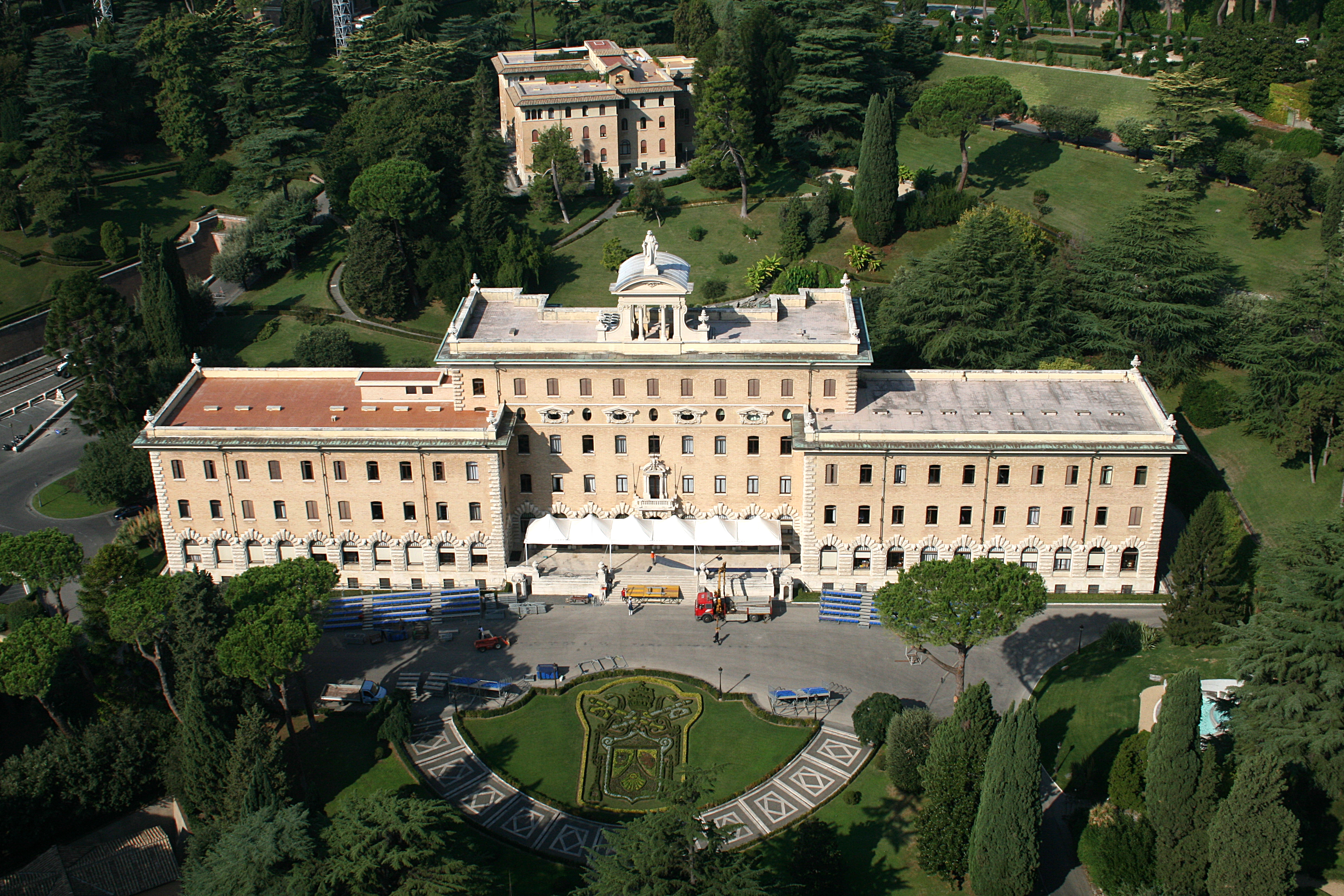 Palace of the Governorate of the Vatican City State.